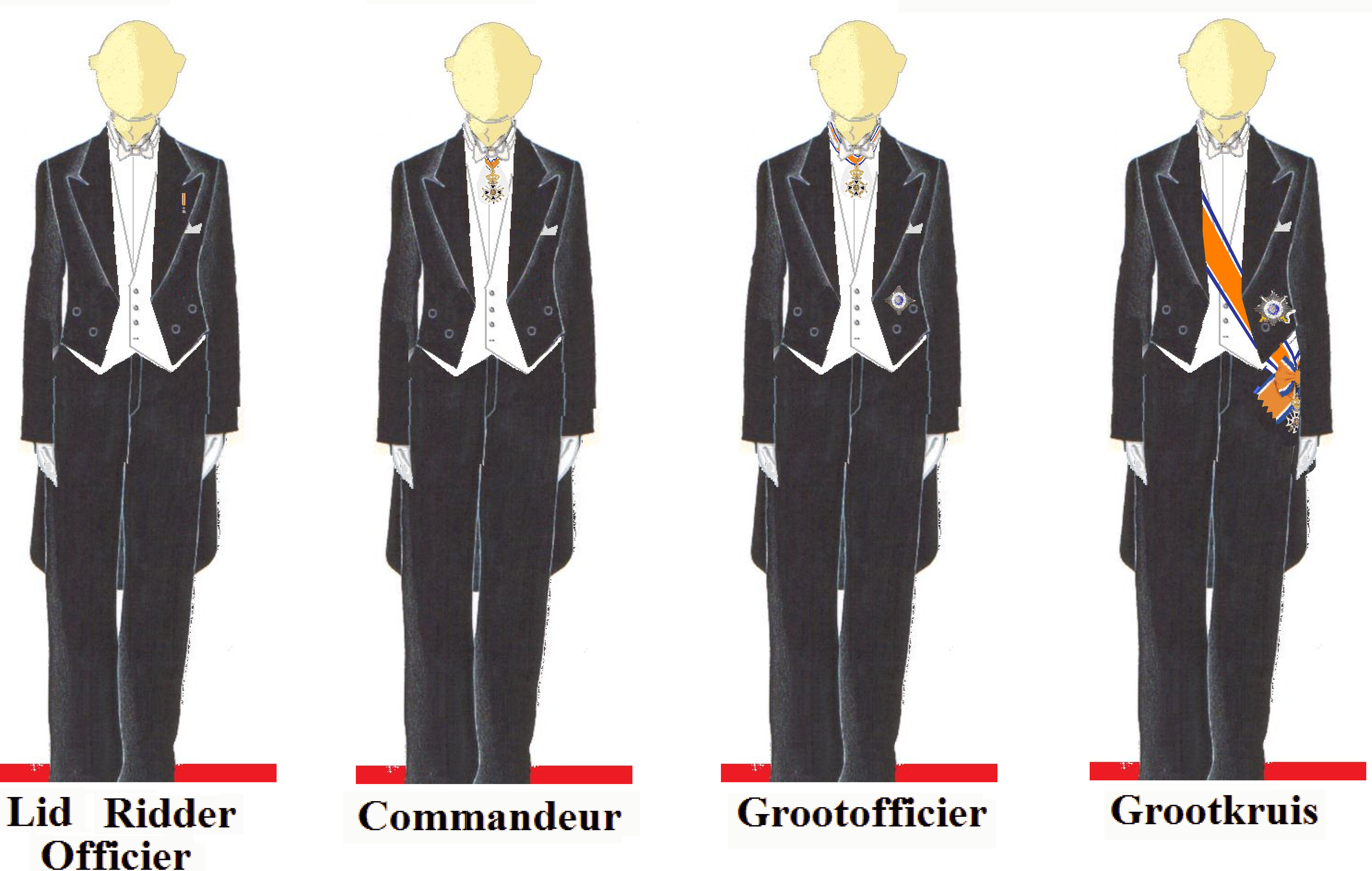 Order of Orange-Nassau